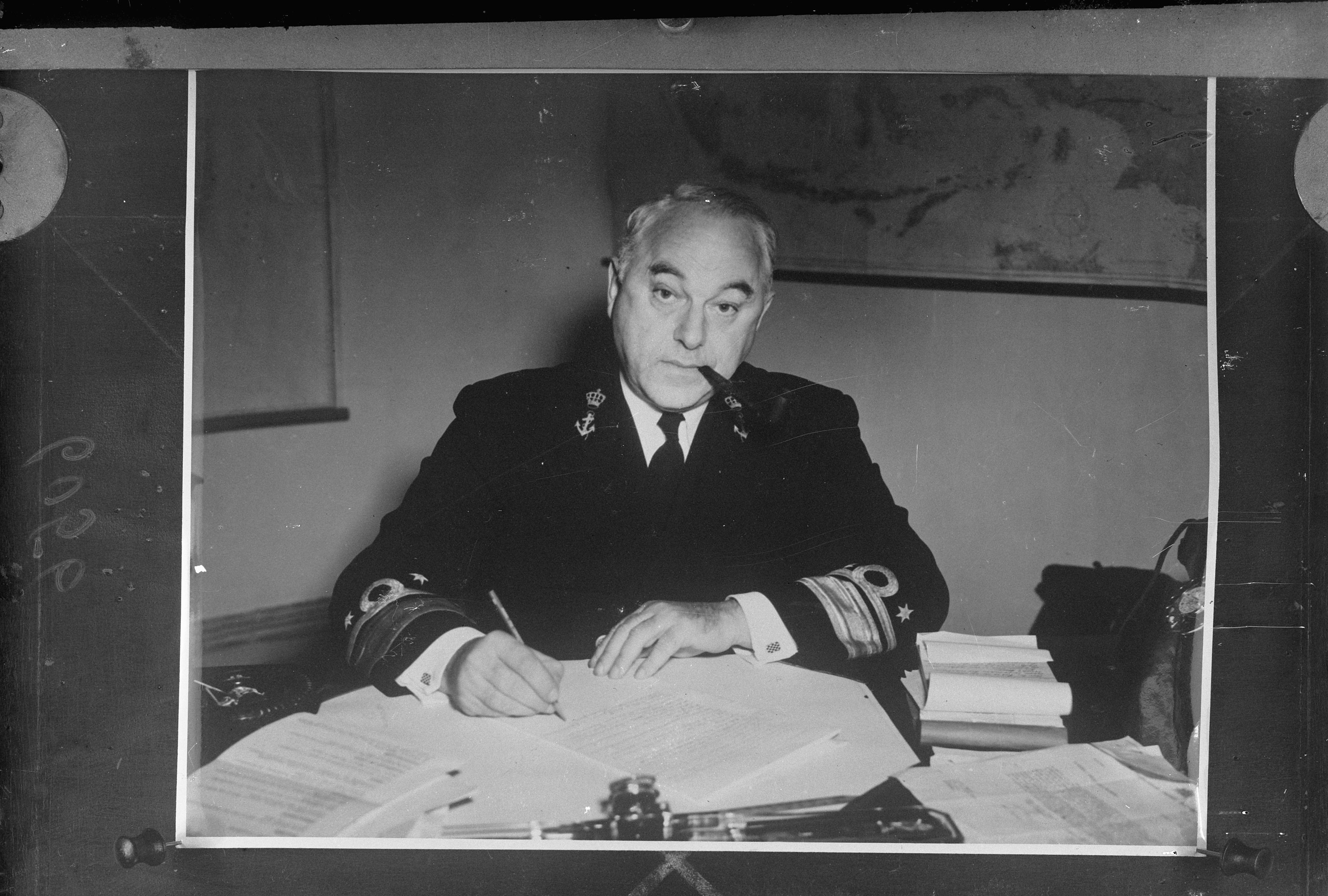 Pieter Koenraad (1890-1968) was a Dutch vice admiral.